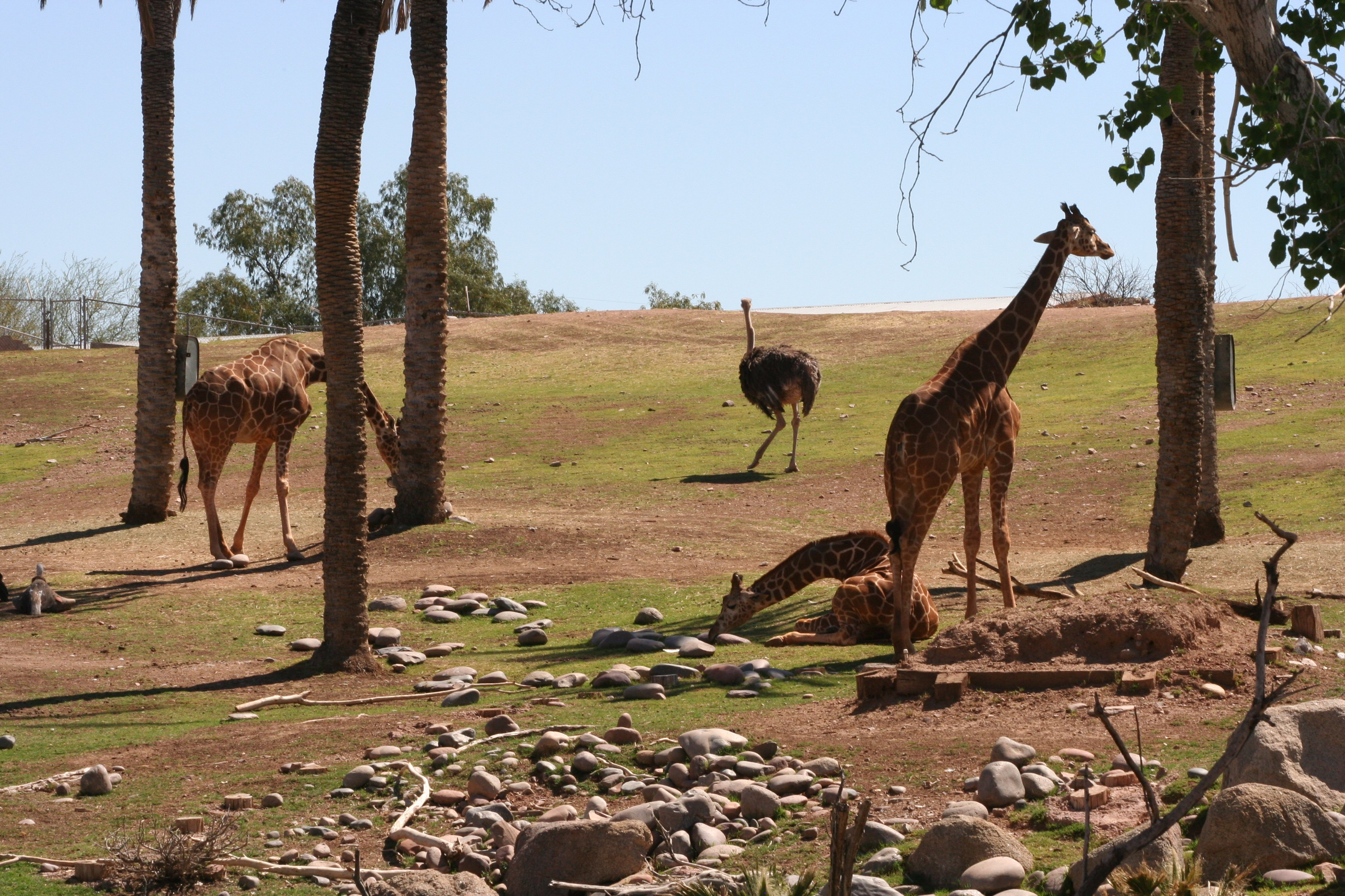 Giraffes and ostrich in the "Savanna" section of the Phoenix Zoo, Phoenix, AZ.